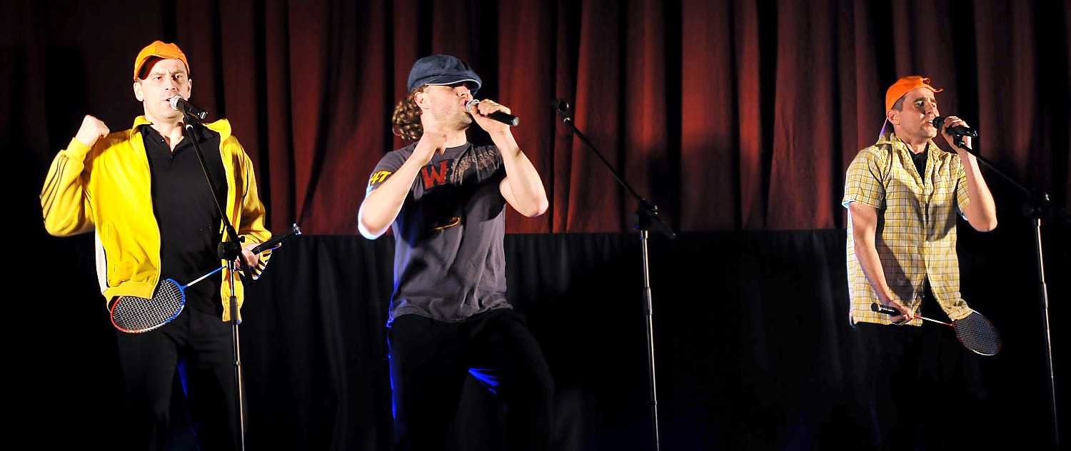 Polish comedy group Paranienormalni in December 2009.